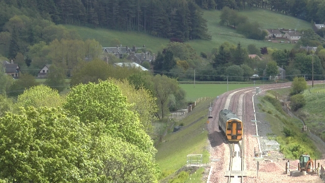 A class 158 DMU at the newly complete Galabank Junction on the Borders Railway, prior to passenger services commencing.